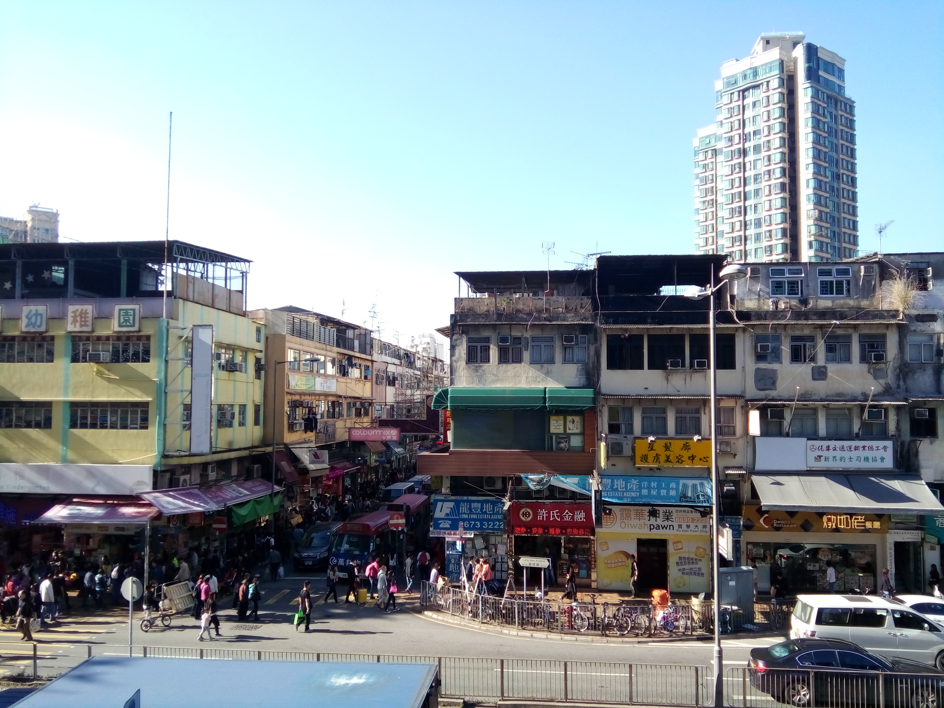 龍琛路, Shek Wu Hui, Sheung Shui in Jan 2017 Hong Kong